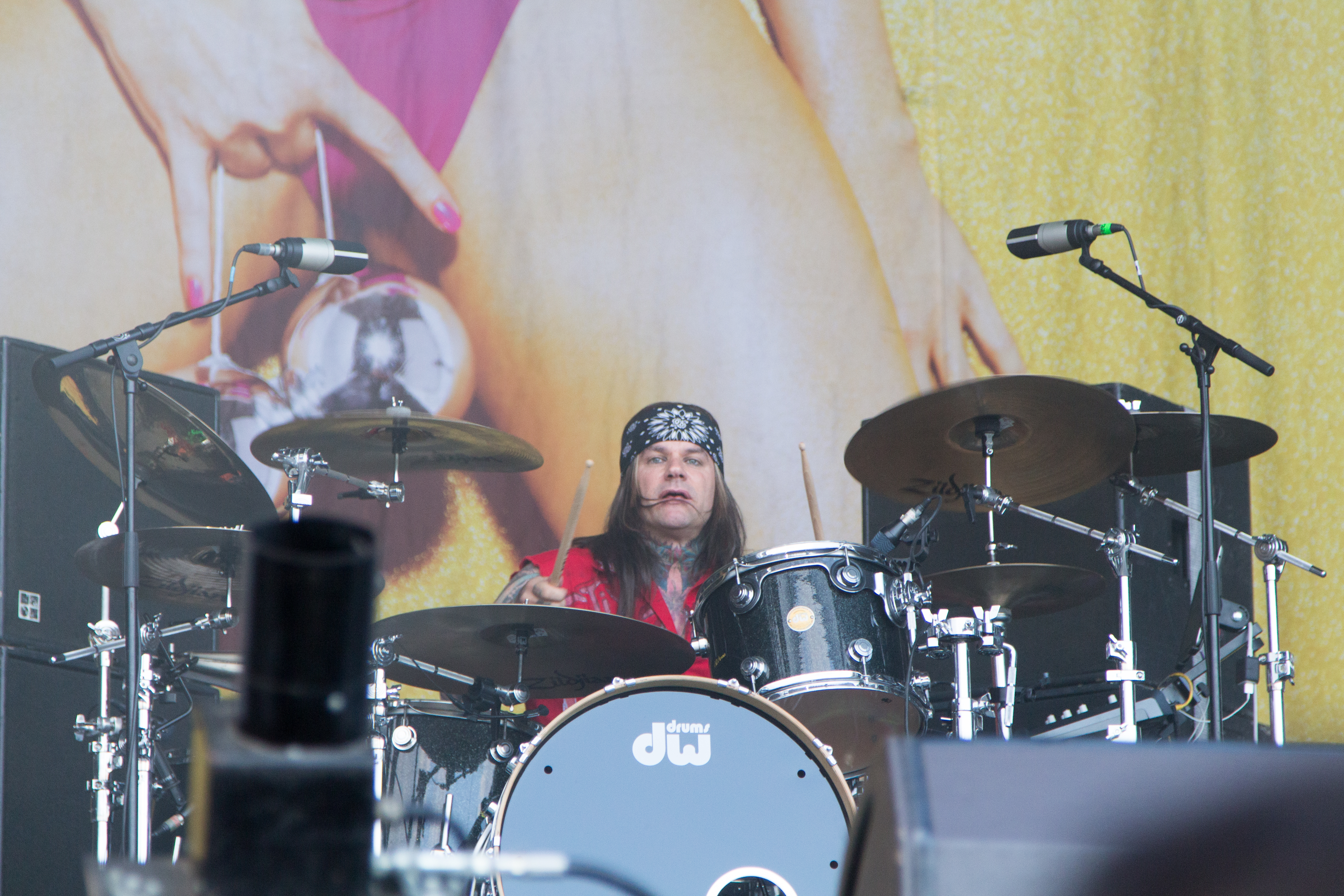 Stix Zadinia from Steel Panther at Nova Rock 2014